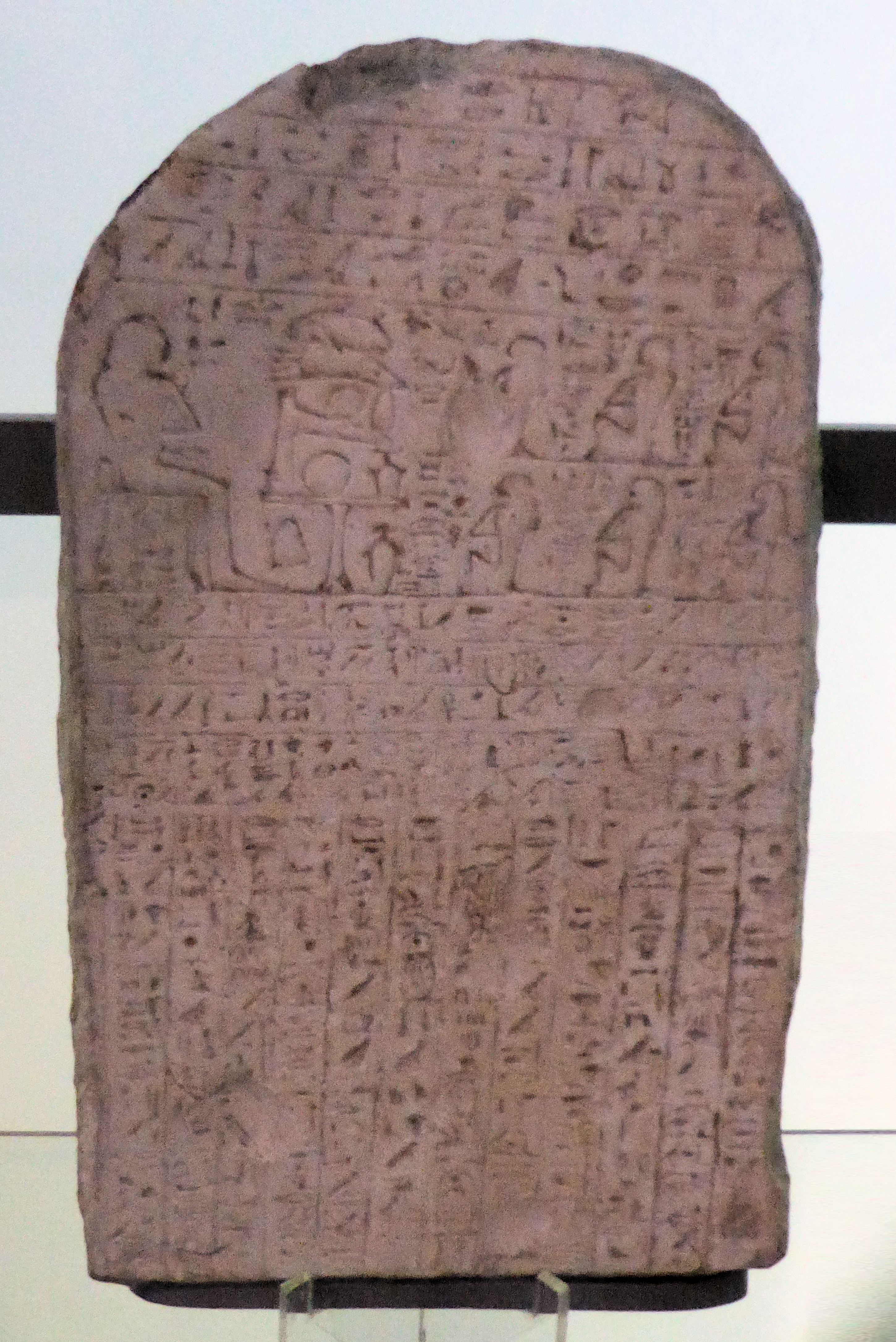 Manchester Museum, stela of Sebekkhu